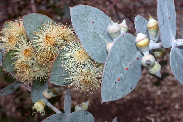 Foliage flower buds and flowers of Eucalyptus pulverulenta in the Australian National Botanic Gardens, Canberra